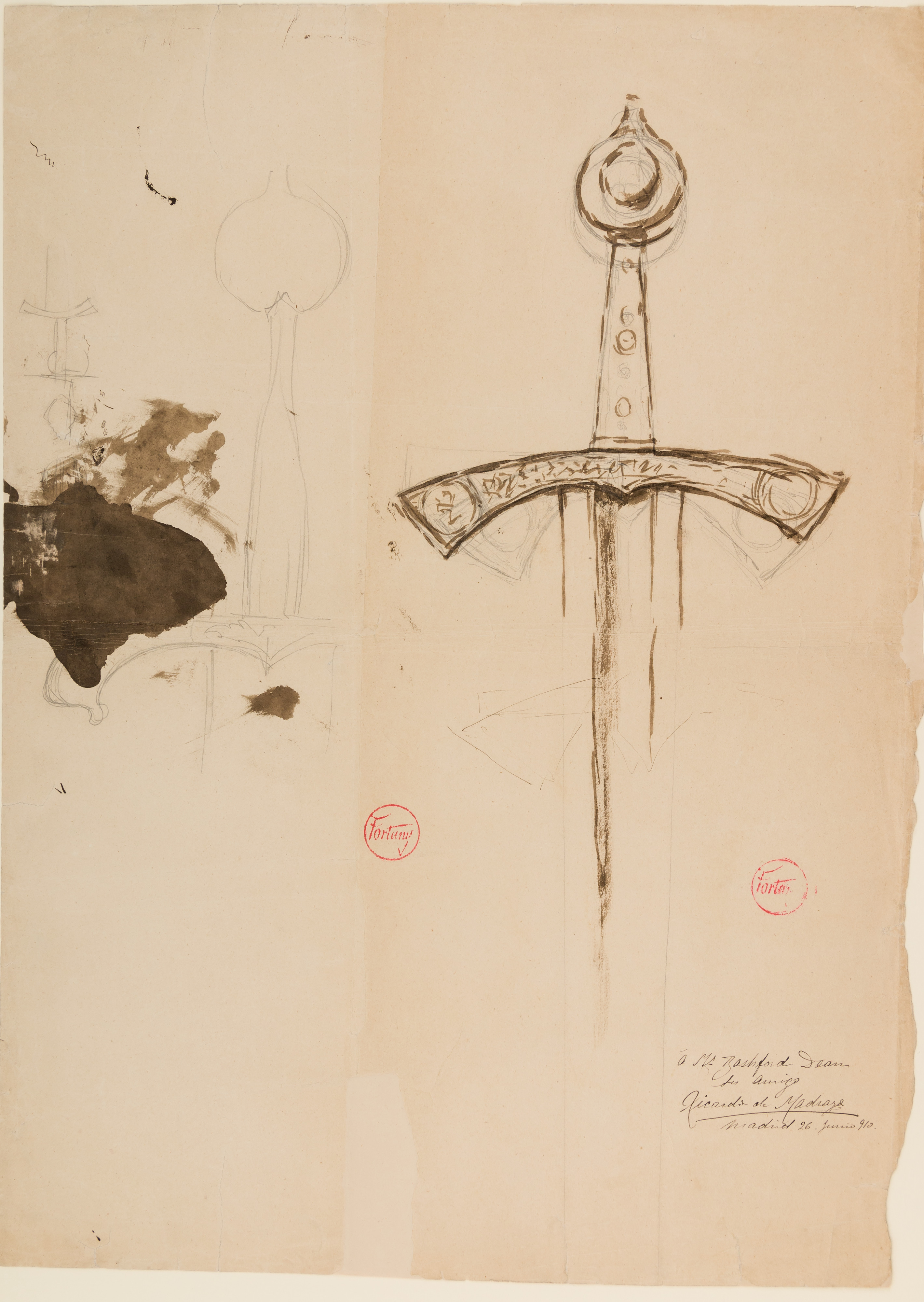 Spanish; Drawing of two medieval swords; Works on Paper-Drawings